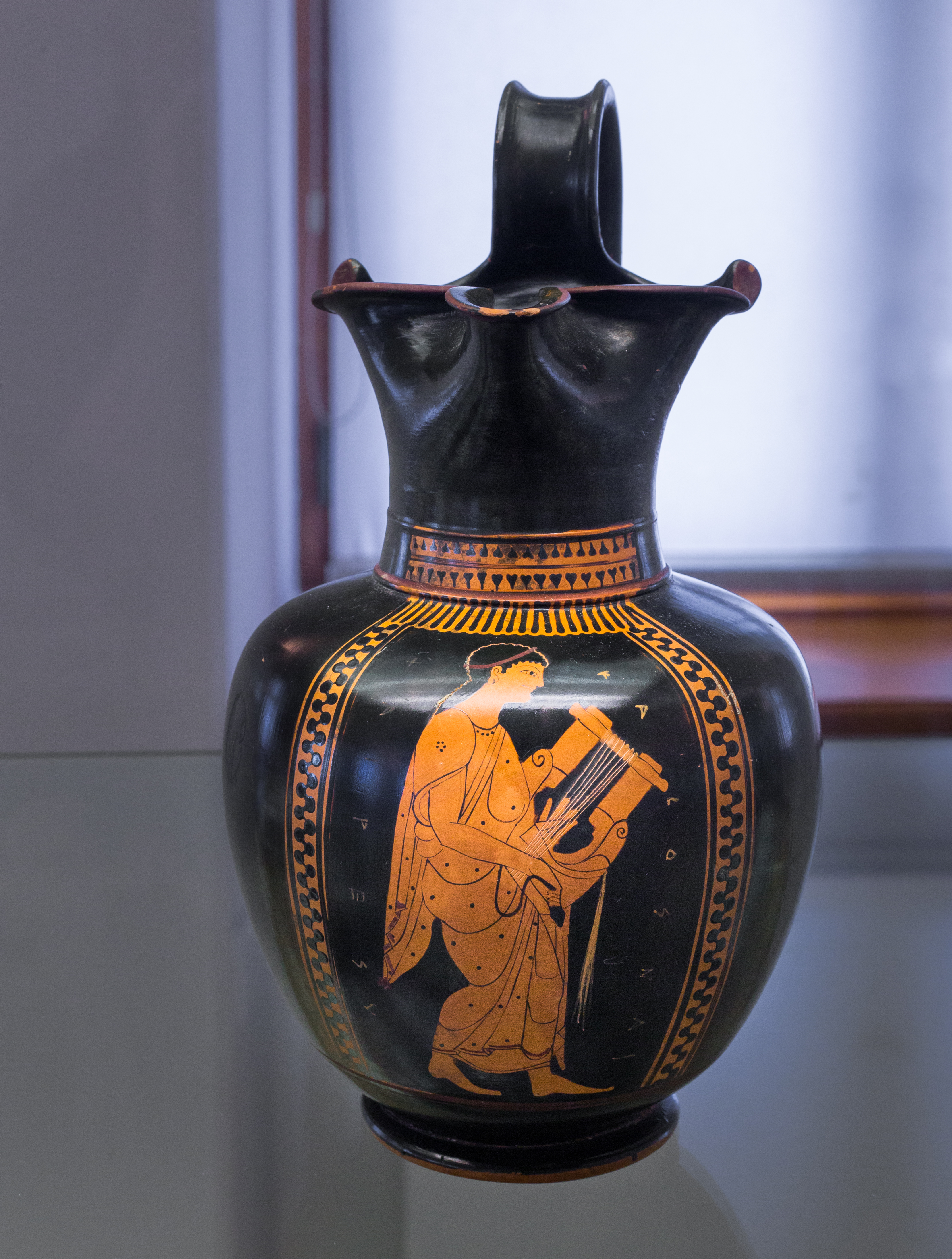 object type / vase shape: attic red figure oinochoe shape 2 - description: young beardless citharode (cithara player) - production place: Athens - painter: Goluchow Painter - period / date: late archaic, ca. 520 BC - material: pottery (clay) - height: 25 cm - findspot: Vulci - museum / inventory number: München, Staatliche Antikensammlungen 2446 temporarily on loan in Weiden, Keramikmuseum - bibliography: John D. Beazley, Attic Red-Figure Vase-Painters, Oxford 1963(2), 10,4 - Please note: The above museum permits photography of its exhibits for private, educational, scientific, non-commercial purposes. If you intend to use the photo for any commercial aime, please contact the museum and ask for permission.